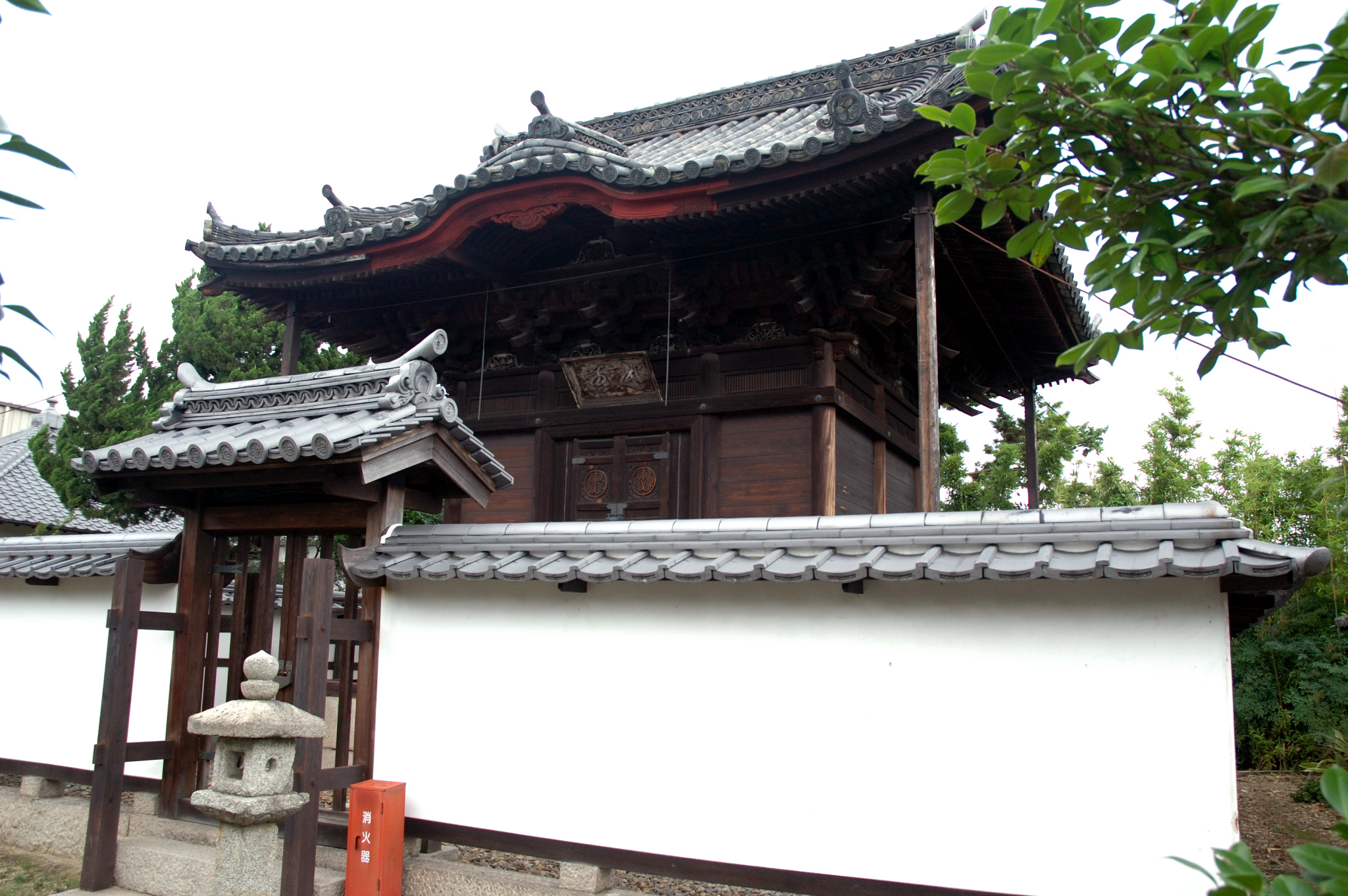 The joss house of Ikeda Tadatsugu